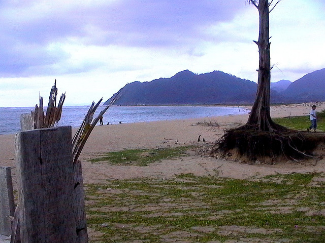 This Pictures shot after 1 year Tsunami disaster in Lam puuk Beach, Banda Aceh Indonesia